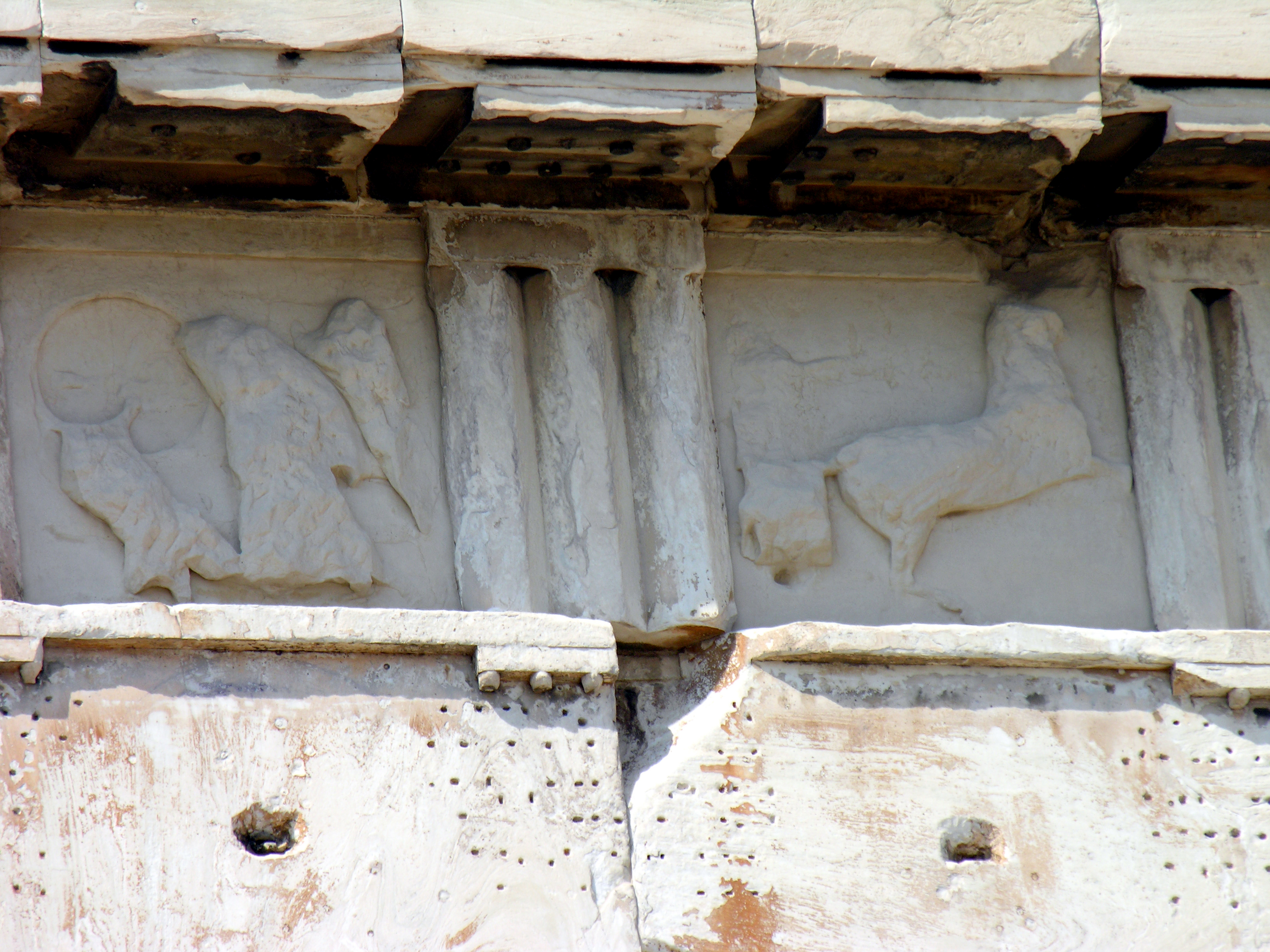 Metope of the Eastern facade